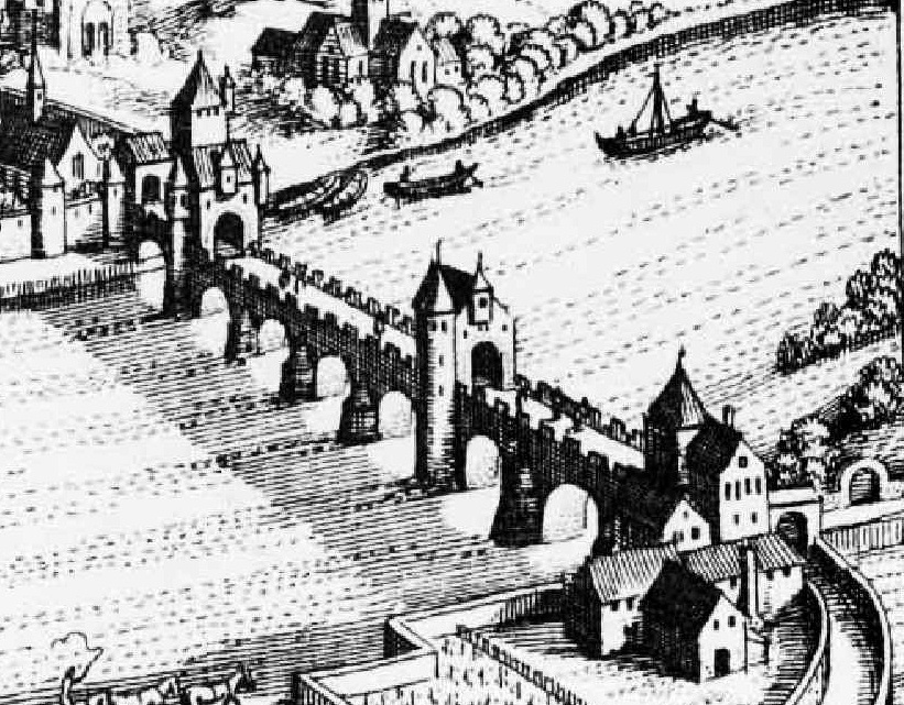 The Roman Bridge over the Mosel river in Trier (Germany). Part of an engraving from the 1646 book "Topographia Archiepiscopatuum Moguntinensis". The view is probably taken from 1548; see commentary on image:De Merian Mainz Trier Köln 045.jpg.